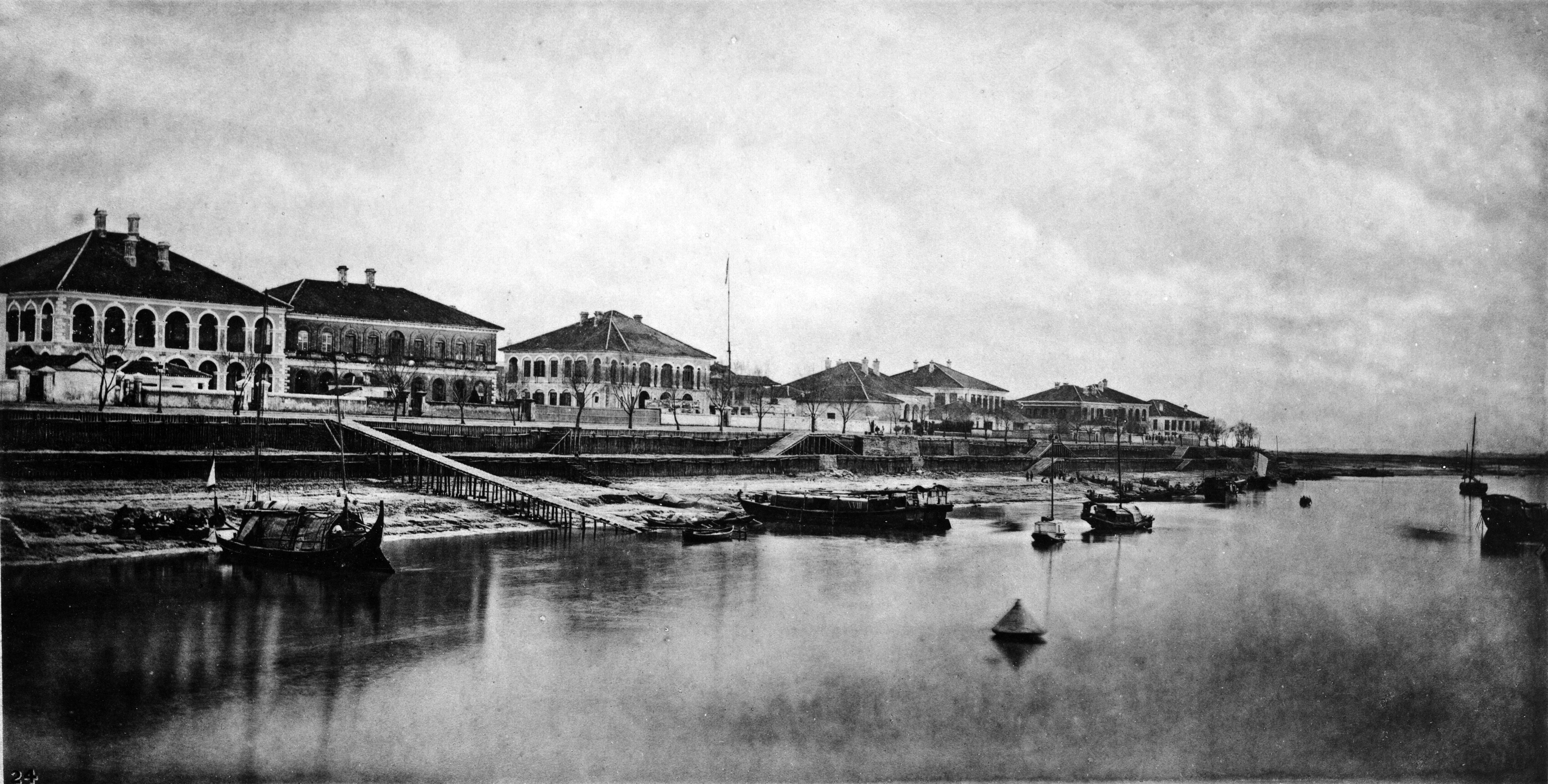 The Bund in front of the British Concession at Kiukiang (Jiujiang) in the late 19th century. Great Britain was granted a concession at Kiukiang in 1861 and a concession administered by a British municipal council was in operation there until 1929, when it was dissolved (Chen-O'Malley Agreement of February 1929). Photograph by John Thomson. See detail on the Wikisource link below.